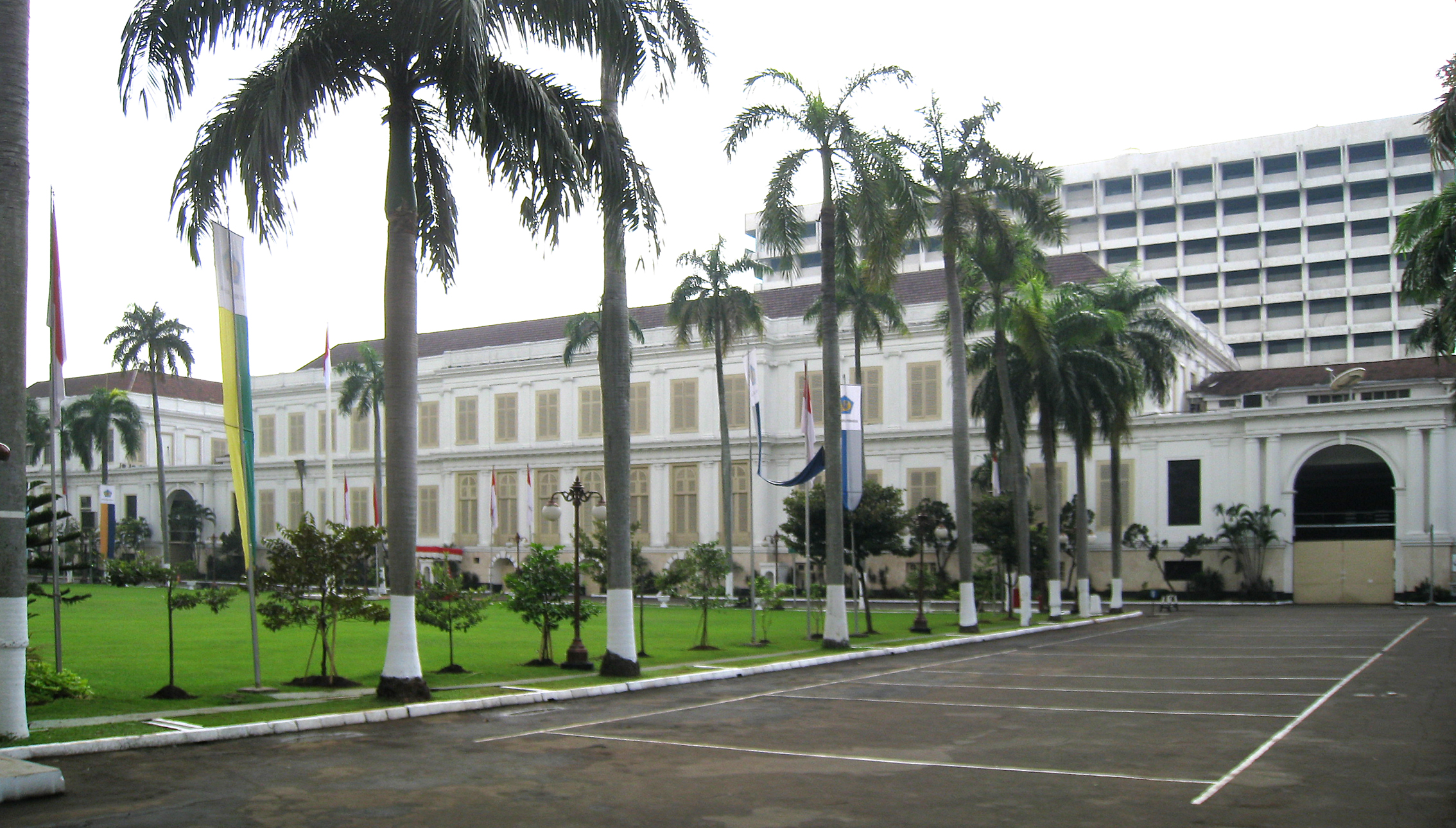 The headquarter of Financial Ministry of Republic of Indonesia. The colonial building is the former Palace of Governor-General Daendels (Het Groote Huis / Het Witte Huis). The French incluenced building clearly demonstrate the Versailles chateau style.